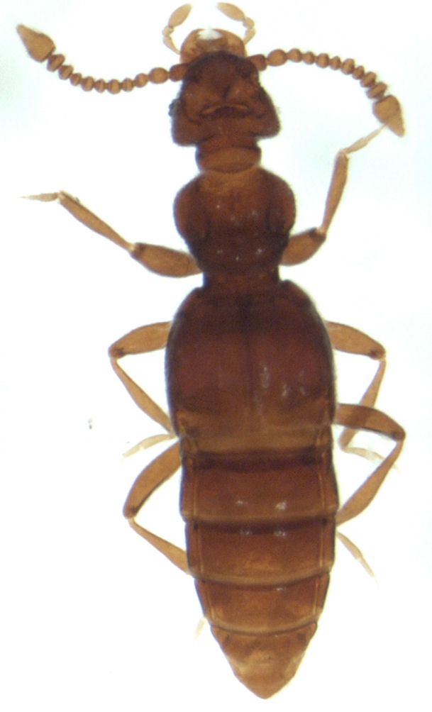 adult Eleusomatus allocephalus in ethanol